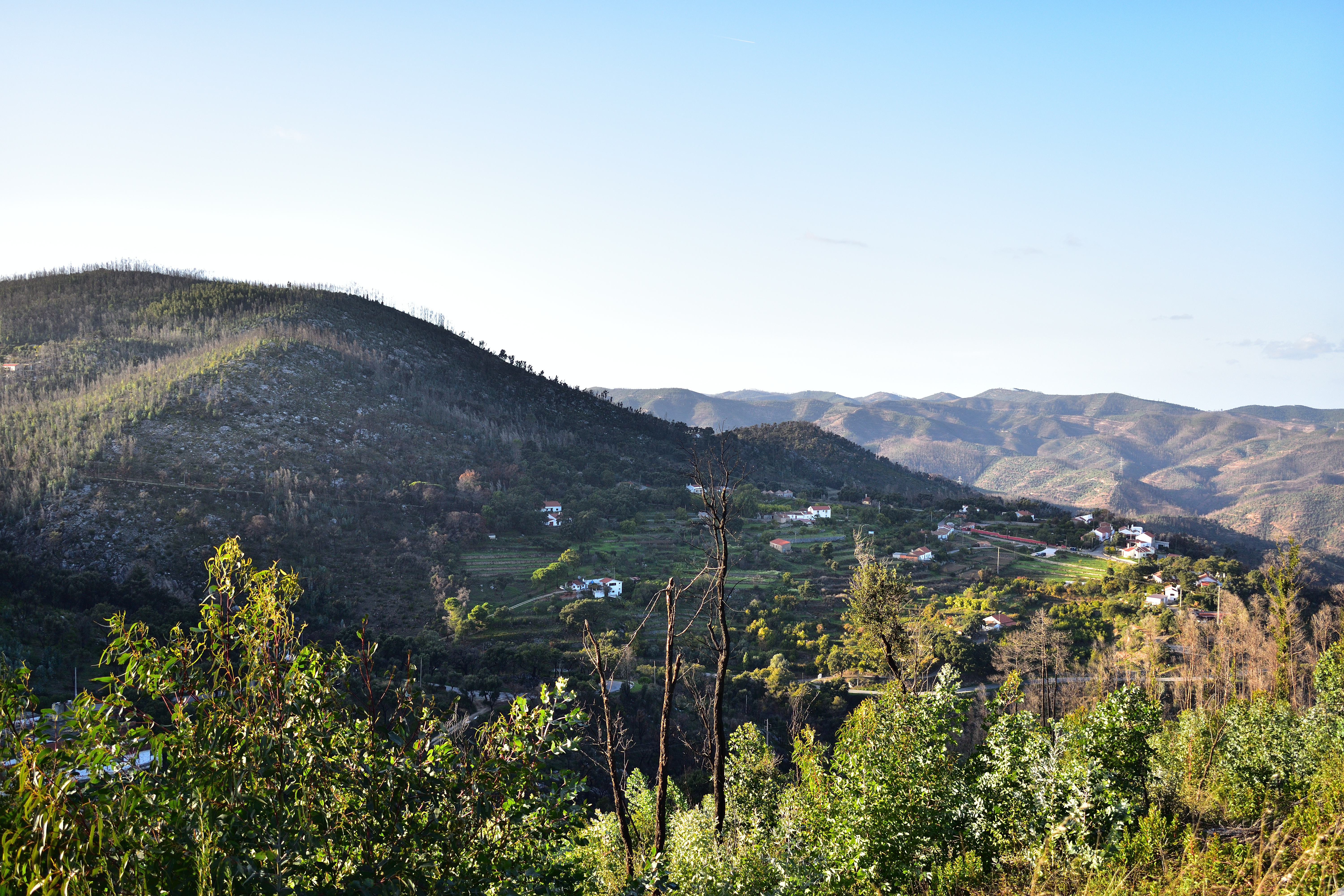 View from Alferce castle, in the region of Algarve, in Portugal.